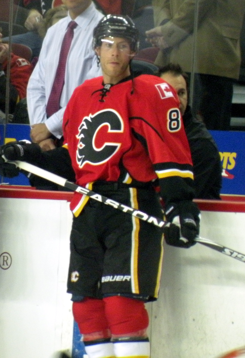 Calgary Flames forward Brendan Morrison prior to a National Hockey league game against the San Jose Sharks.